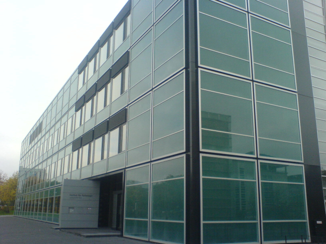 Ludwig-Aschoff-Haus (Institute for Pathology), University Medical Center Freiburg, Freiburg, Germany